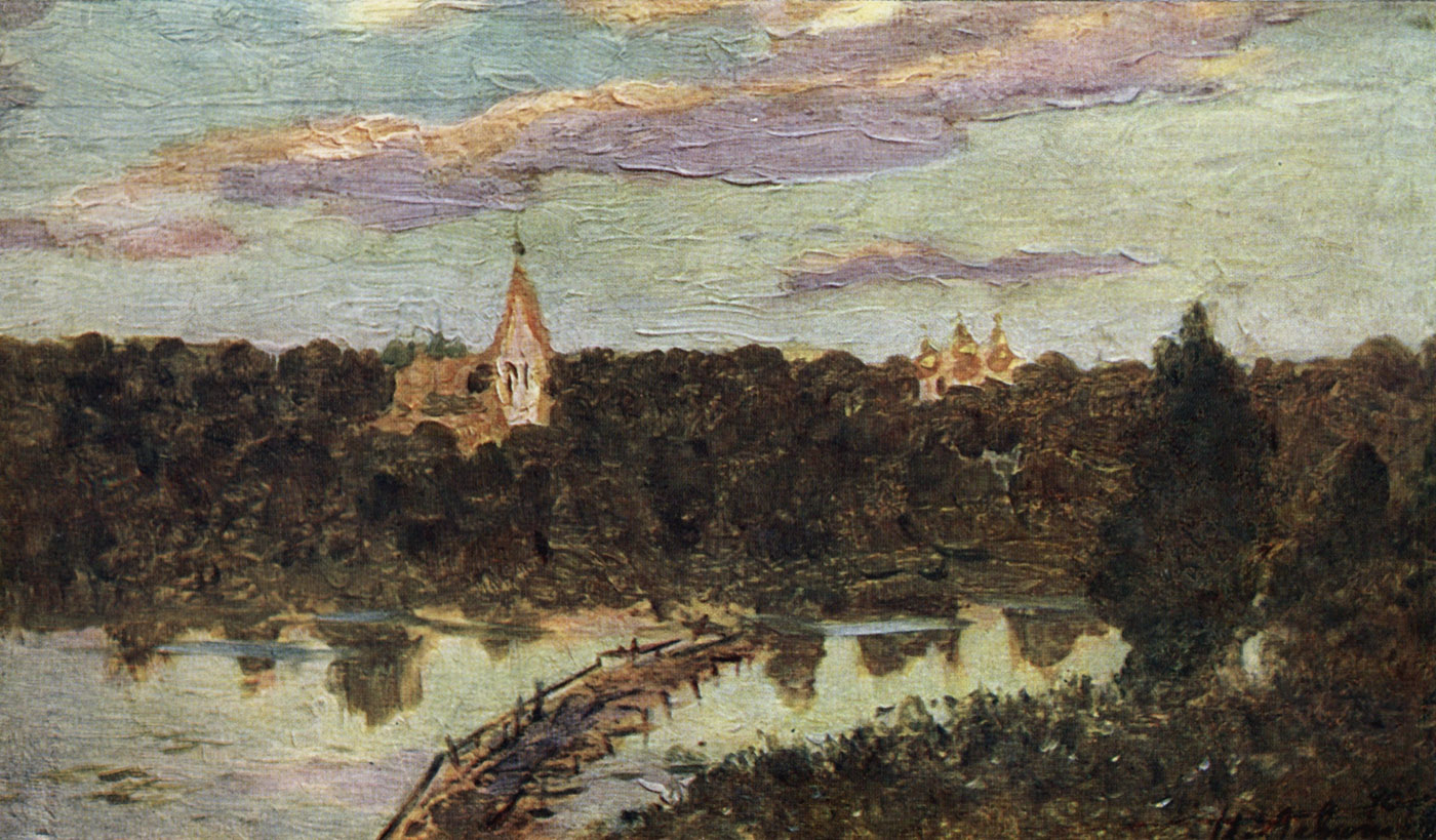 A Quiet Monastery (study by Isaac Levitan, 1890)